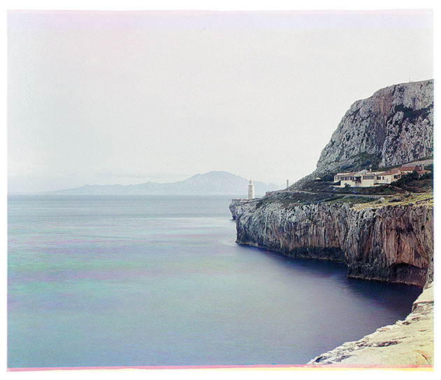 Sarah Acland 1903 Europa Point very early colour picture